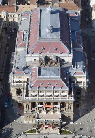 Opera House, Hungary, Budapest, aerial photgraphy